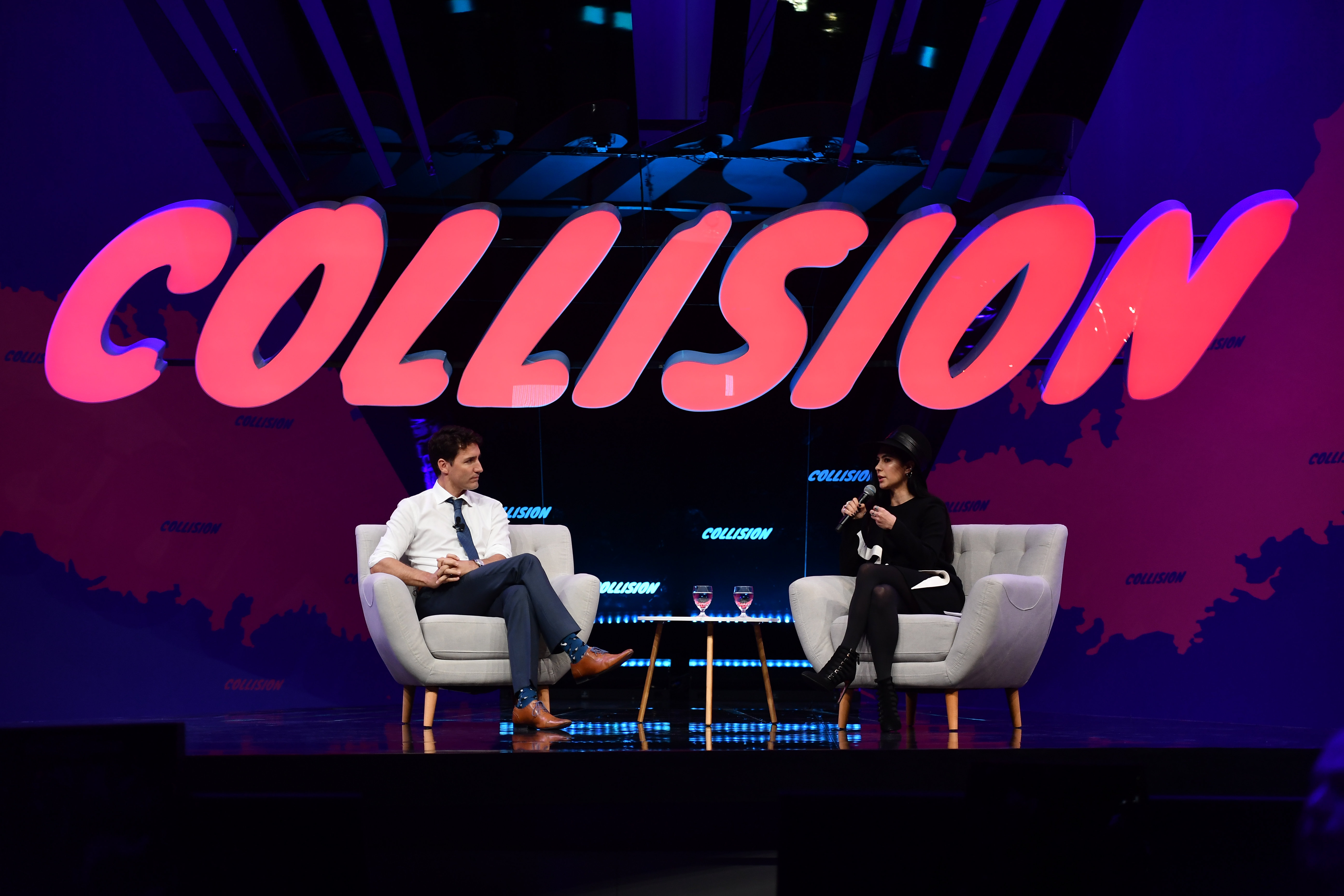 Prime Minister Justin Trudeau being interviewed by Shahrzad Rafati, Founder & CEO, BroadbandTV, on centre stage during the opening night of Collision 2019 at Enercare Center in Toronto, Canada.